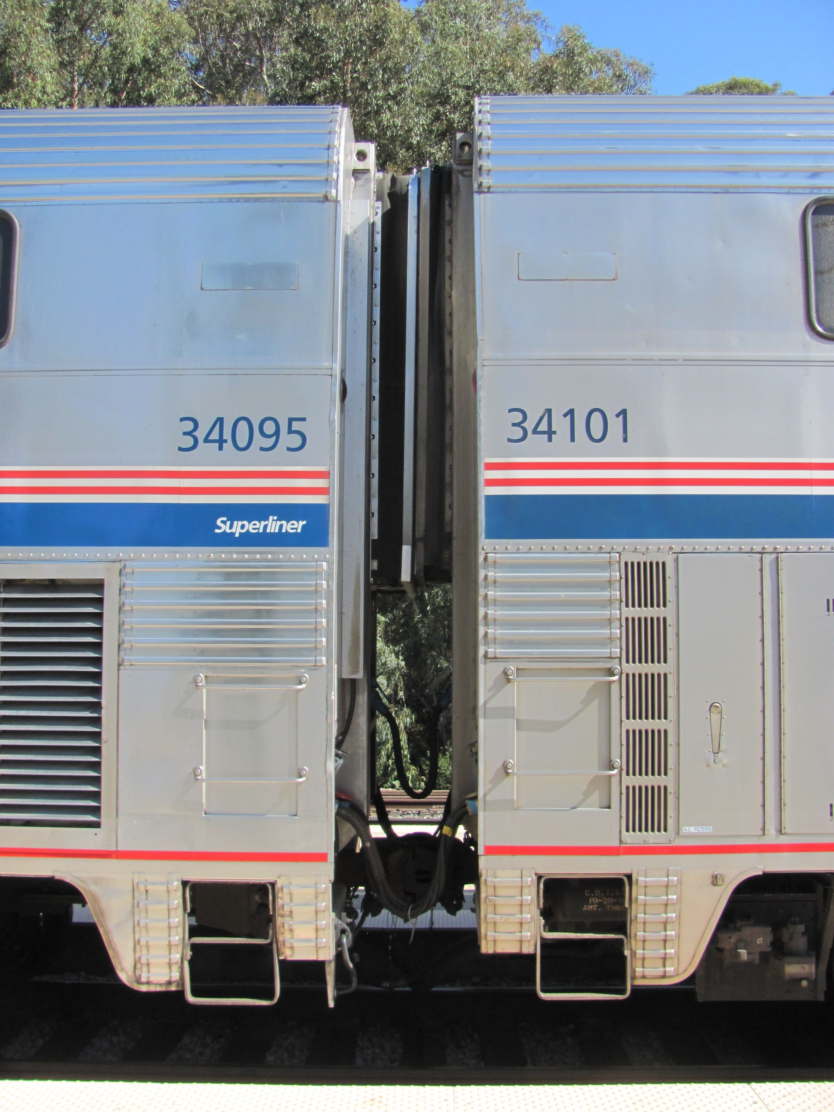 Coupling of two two-story cars of Amtrak passenger stock